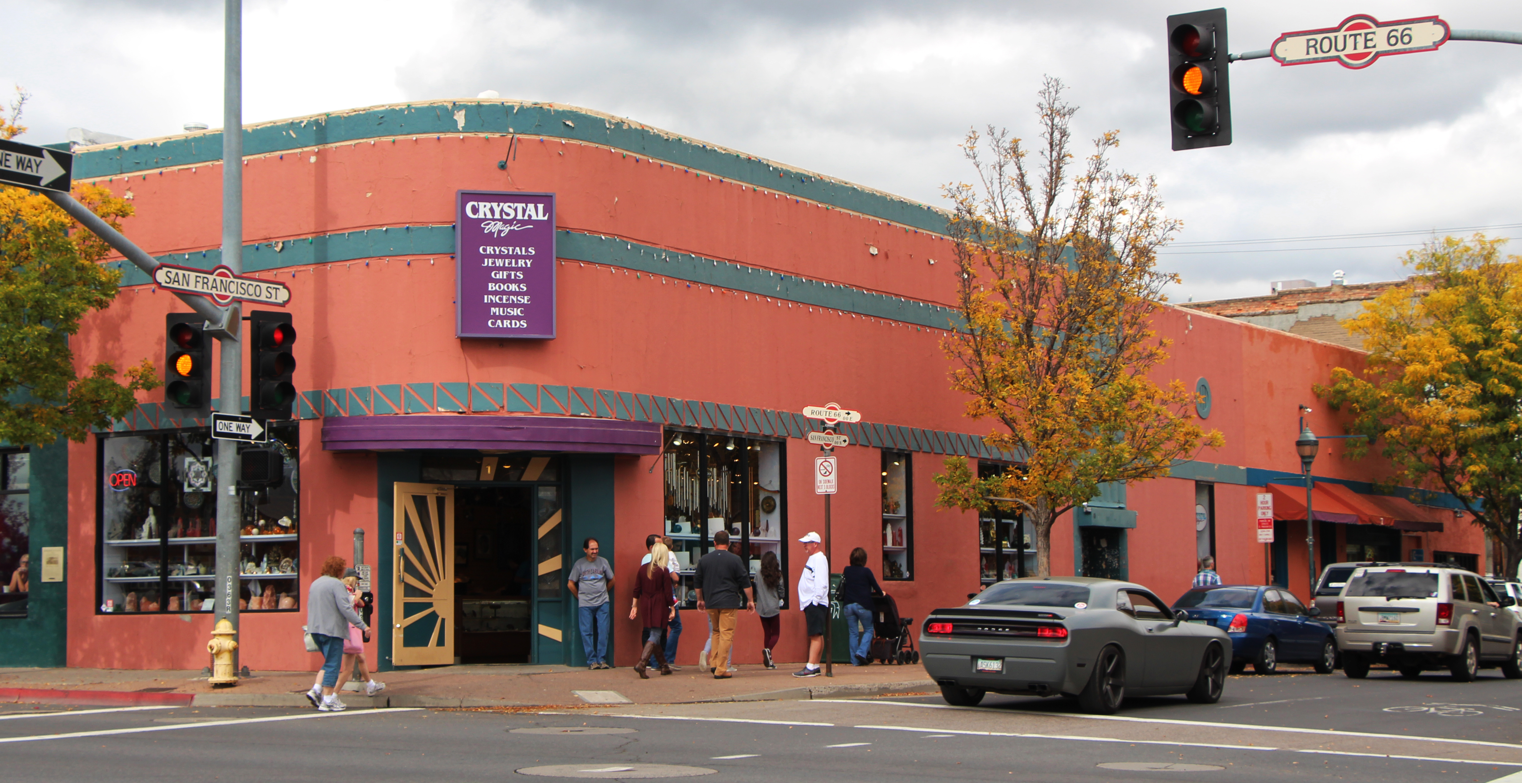 Vail Building, 3 N San Francisco St, Flagstaff, Arizona